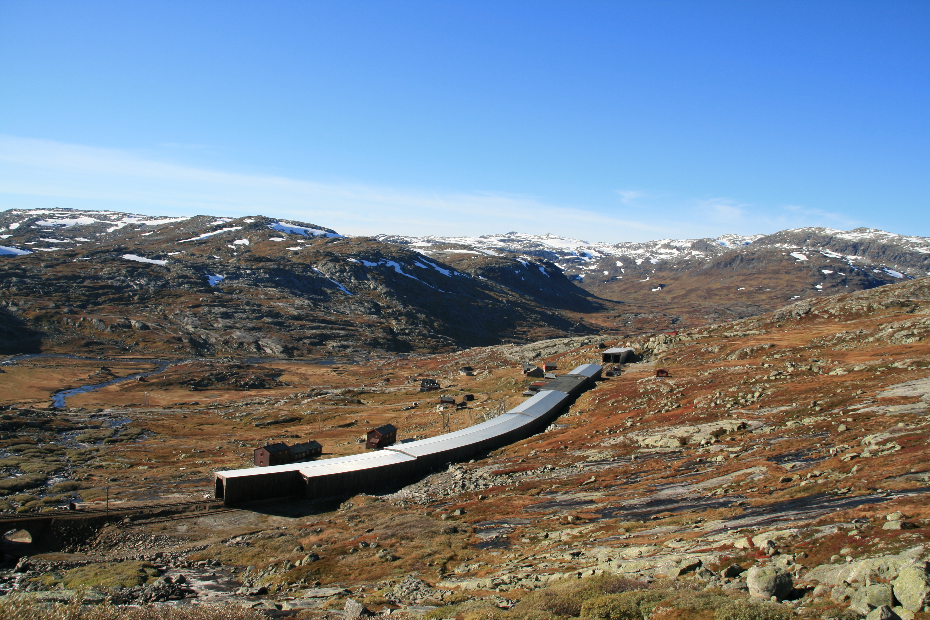 Hallingskeid station - October 2007, just before the snow came